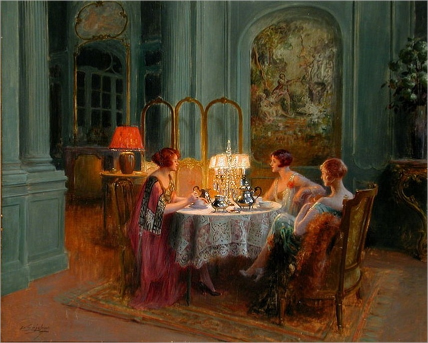 High Tea and Gossip